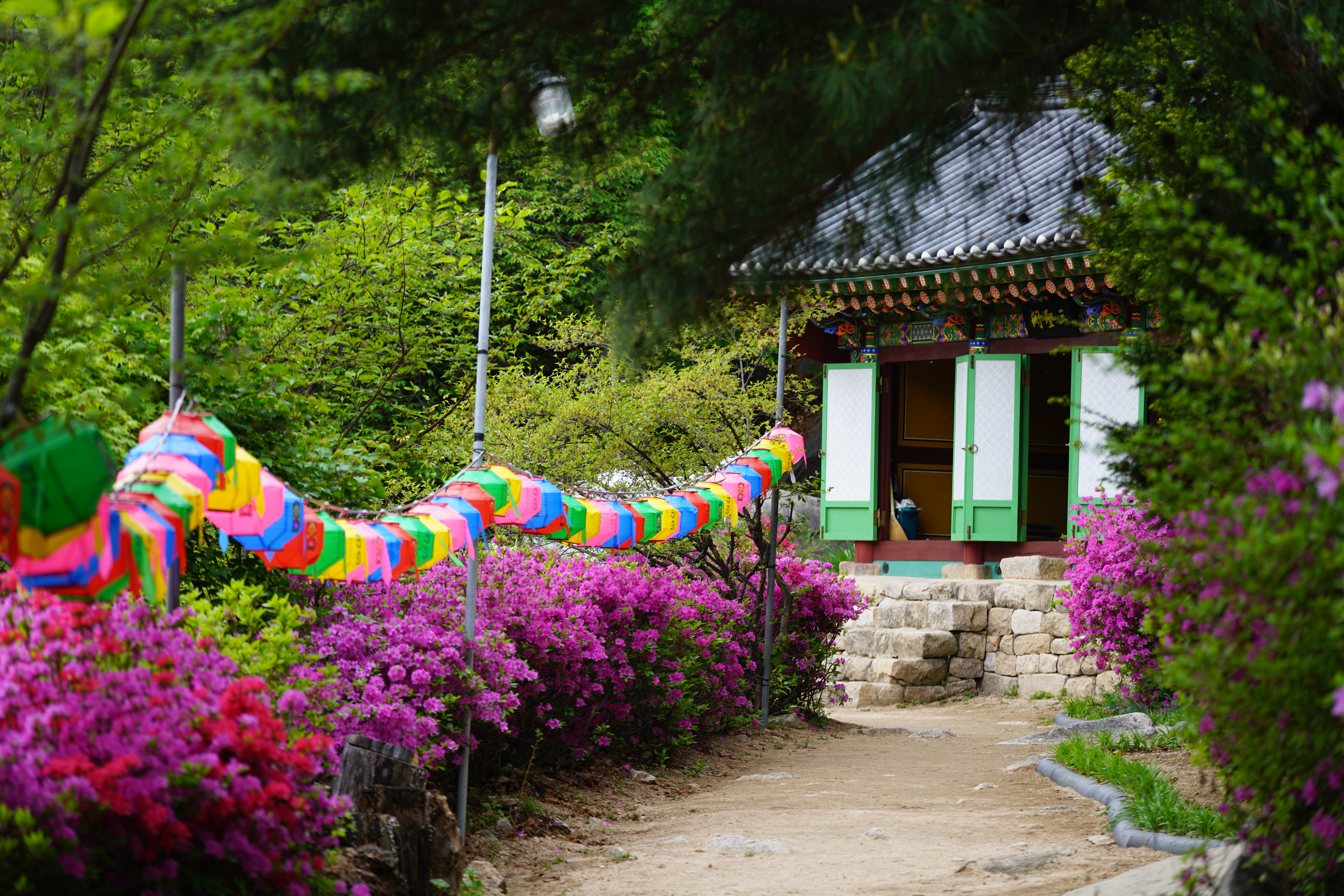 samaunggak hokdoam